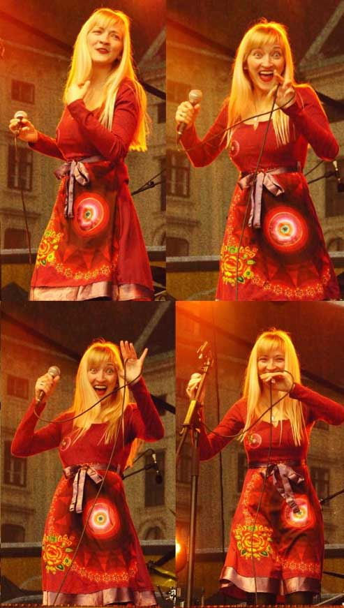 Jelena Krstic_ex_Simic.